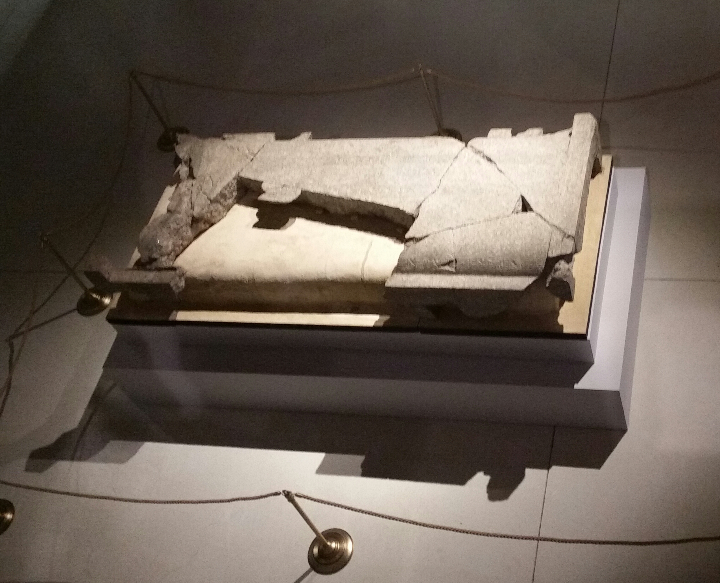 Nefertari sarcophagus, alternating in the Hermitage Museum. Collection of the Egyptian Museum in Turin